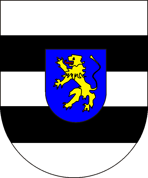 coats of arms of the principality of Isenburg